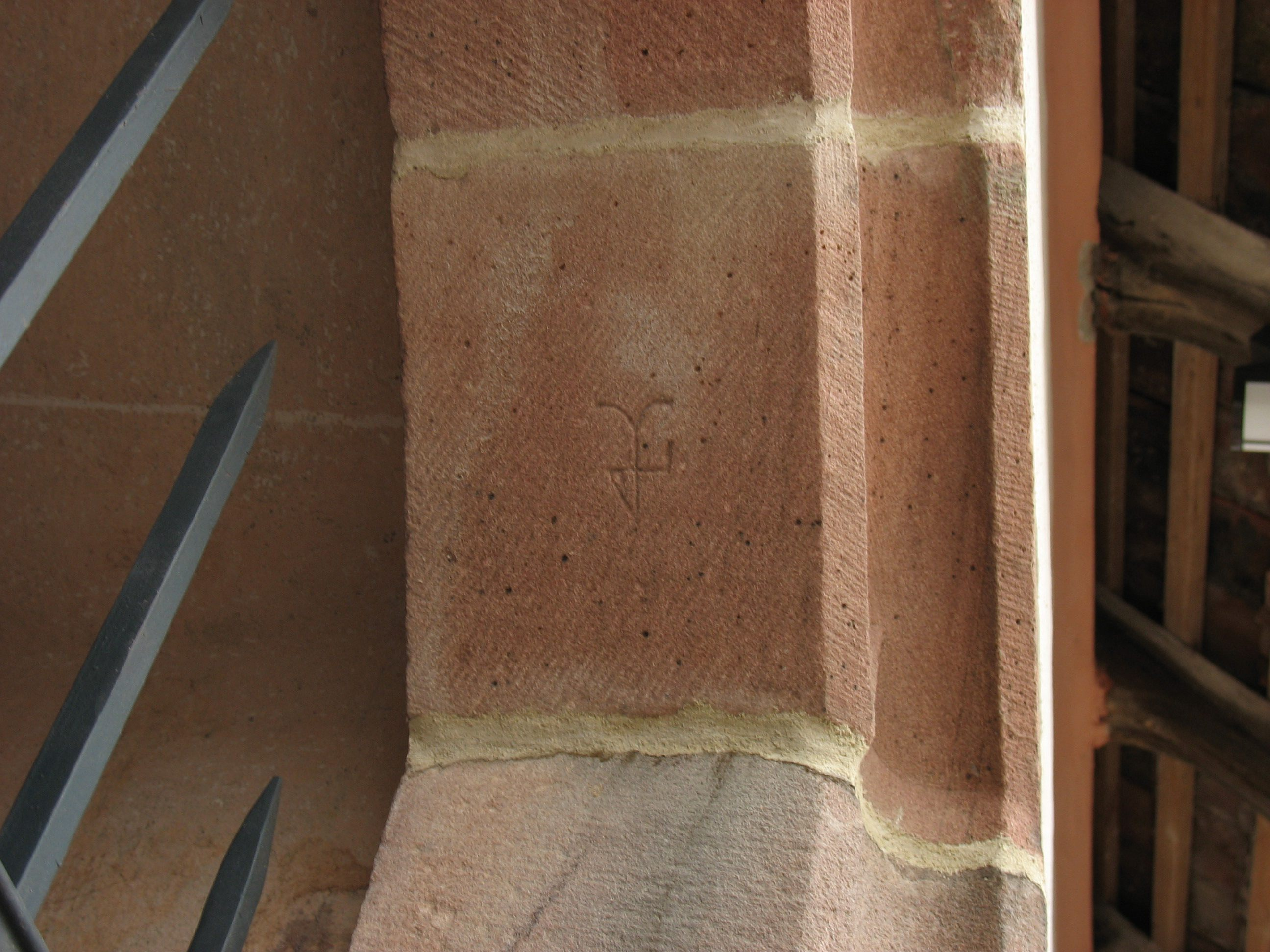 This image has been taken by Wikipedia-ce on january 22 of 2006 and it is public domain. It shows the so called "Steinmetzzeichen" on the Beinhaus of the romanic monastery in Schwarzach, Germany Used by